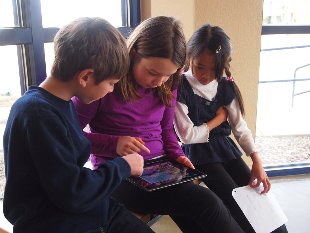 Children playing a game on an iPad